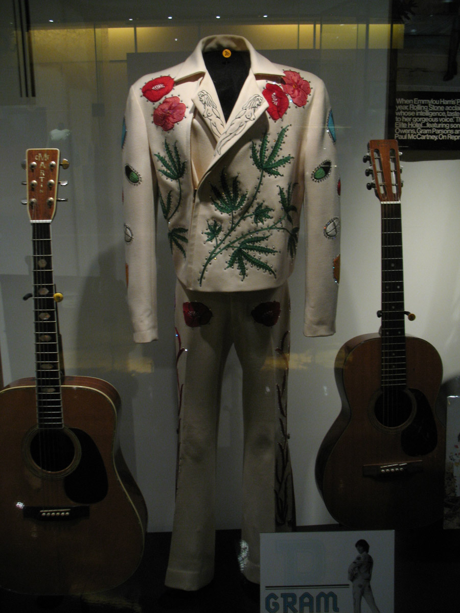 Note the plant chosen by the pioneer country-rocker. Country Music Hall of Fame, Nashville, August 6, 2008